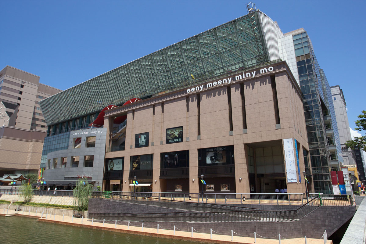 Department store Eeny Meeny Miny Mo, in Fukuoka city, Japan.